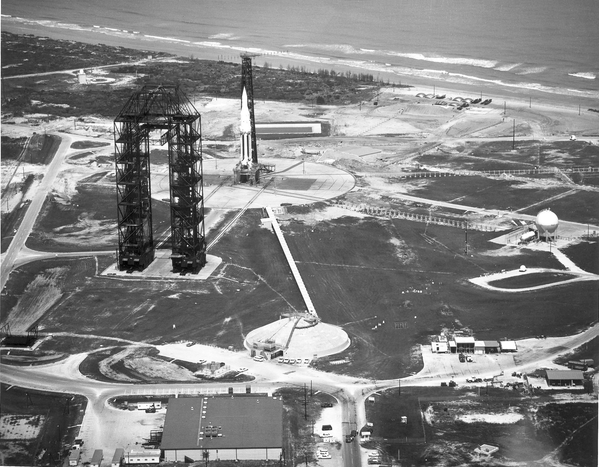 AERIAL OF SATURN 1 SA-4 LAUNCH VEHICLE SITTING ON LC 34 PRIOR TO LAUNCH